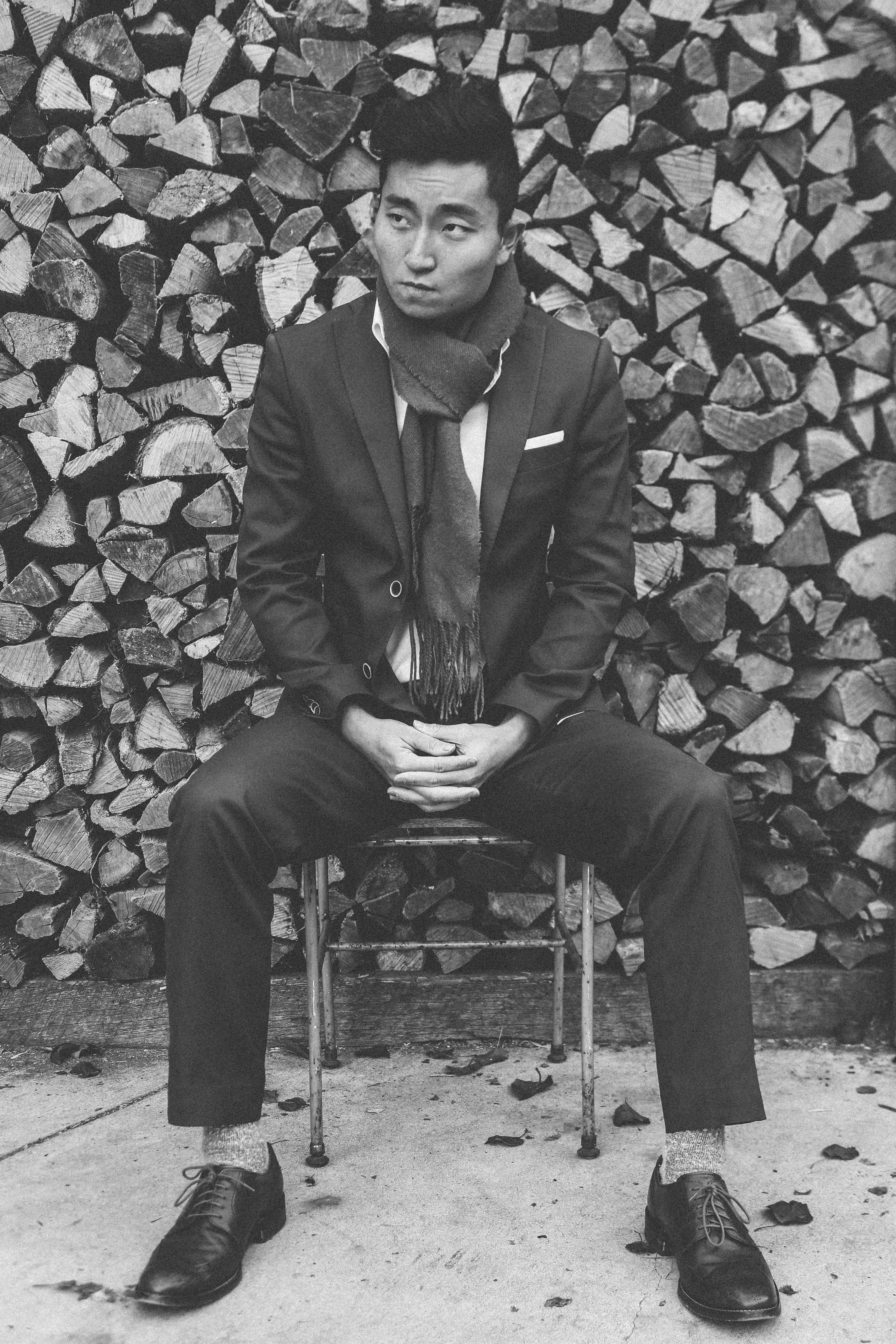 Baltimore Hometown Portrait